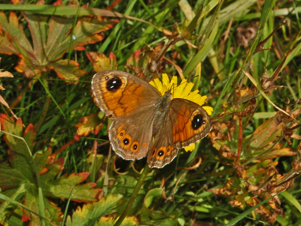 Satyridae - Lasiommata maera